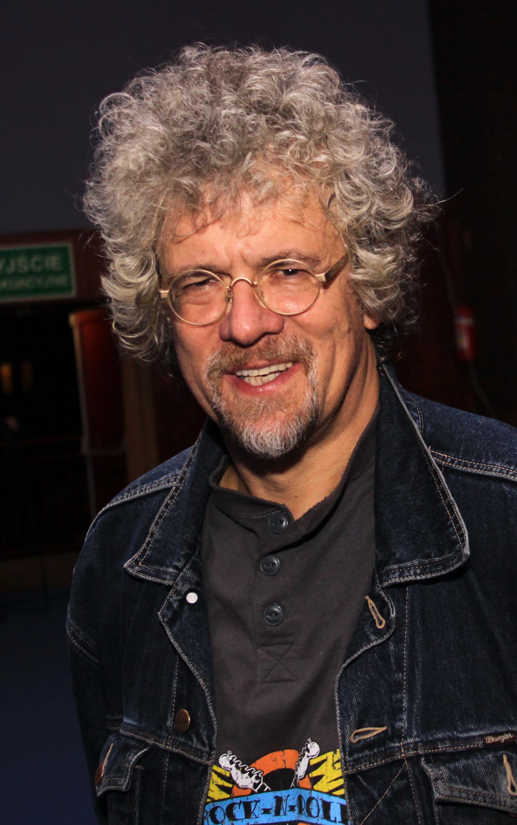 Slawek Wierzcholski. Concert The Blues Nightshift, Busko-Zdrój, 15 September 2012